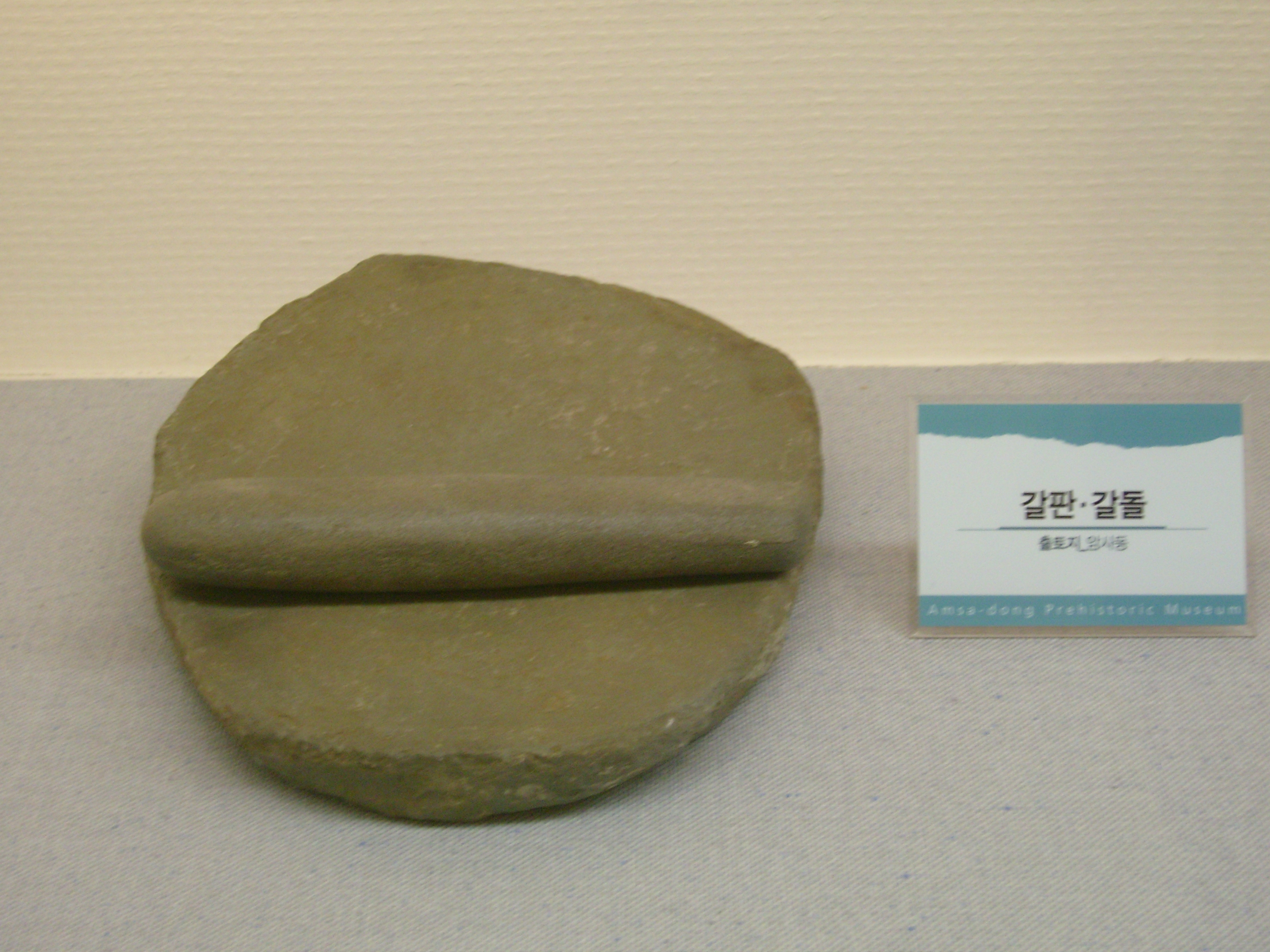 Amsadong Prehistoric Museum, Kangdonggu Seoul